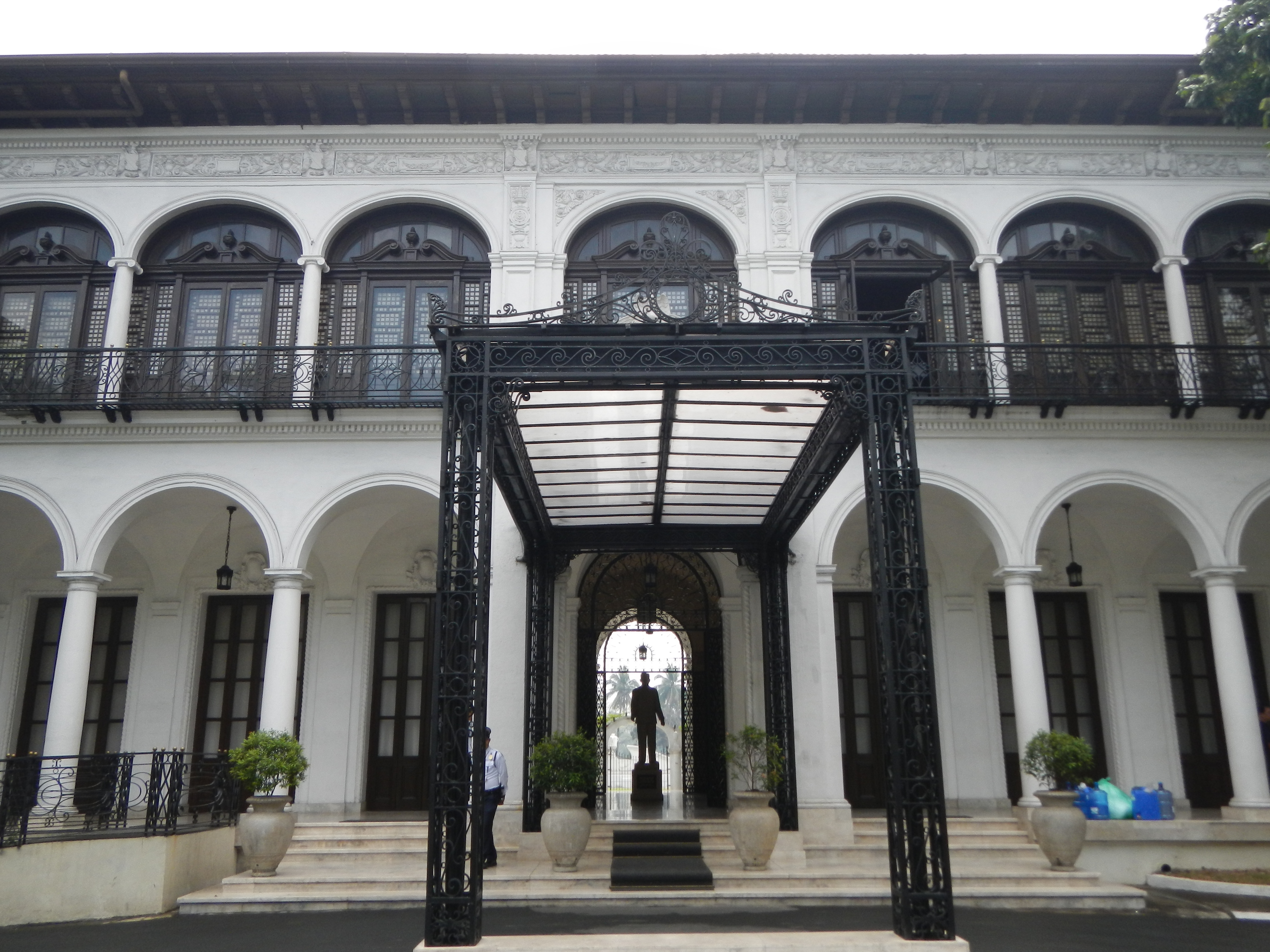 Presidential Museum and Library, Malacañang Palace, in front of the Freedom Park (Liberation of Manila), San Miguel, Manila.